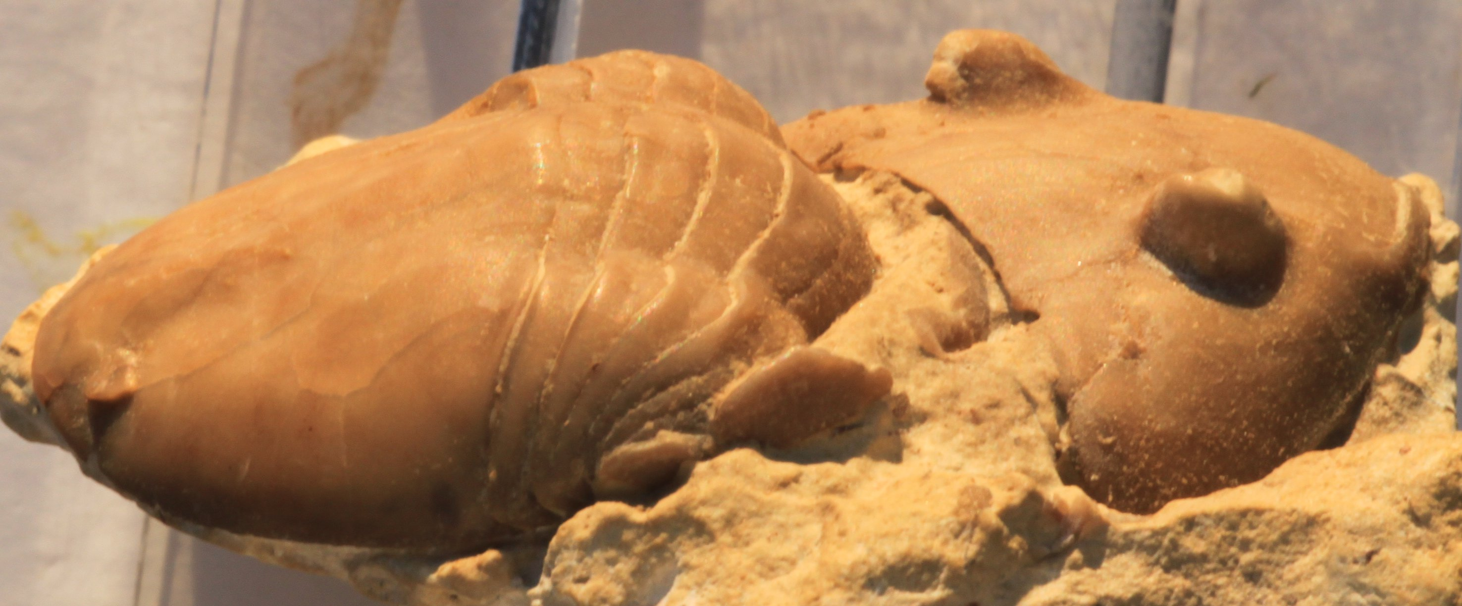 A disarticulate Homotelus bromidensis trilobite, Order Asaphida, family Asaphidae, 45mm head to tail, lateral view, collected from the Bromide Formation, Pooleville member, Carter County, Oklahoma, USA, from the Middle Ordovician